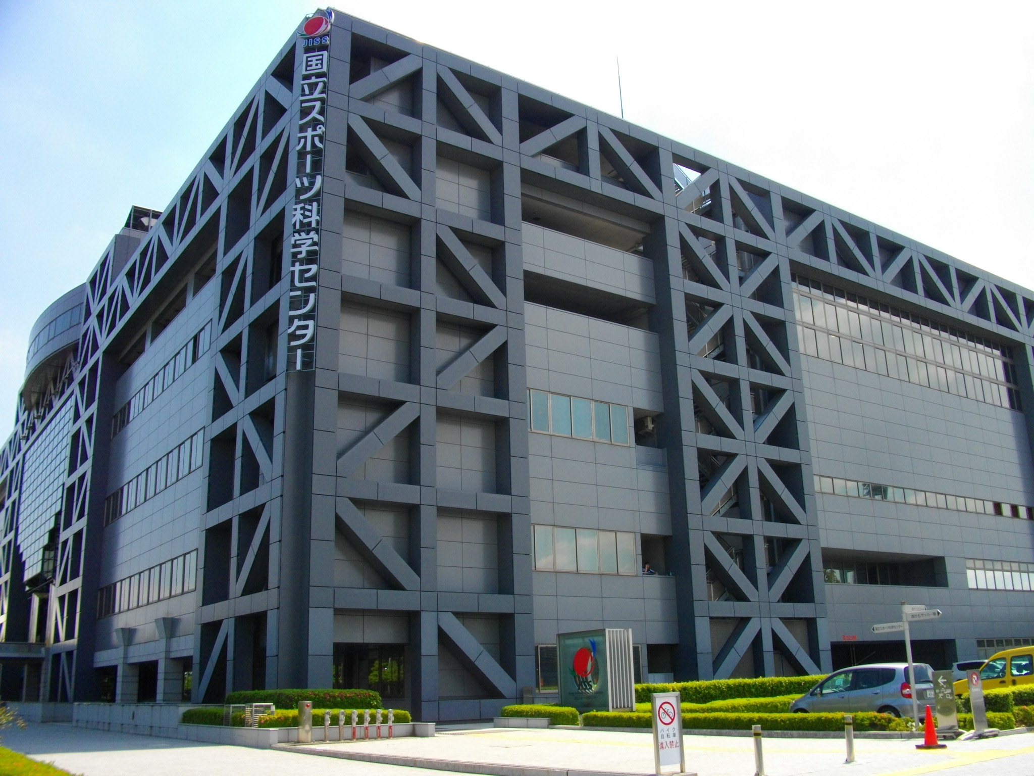 Japan Institute of Sports Sciences